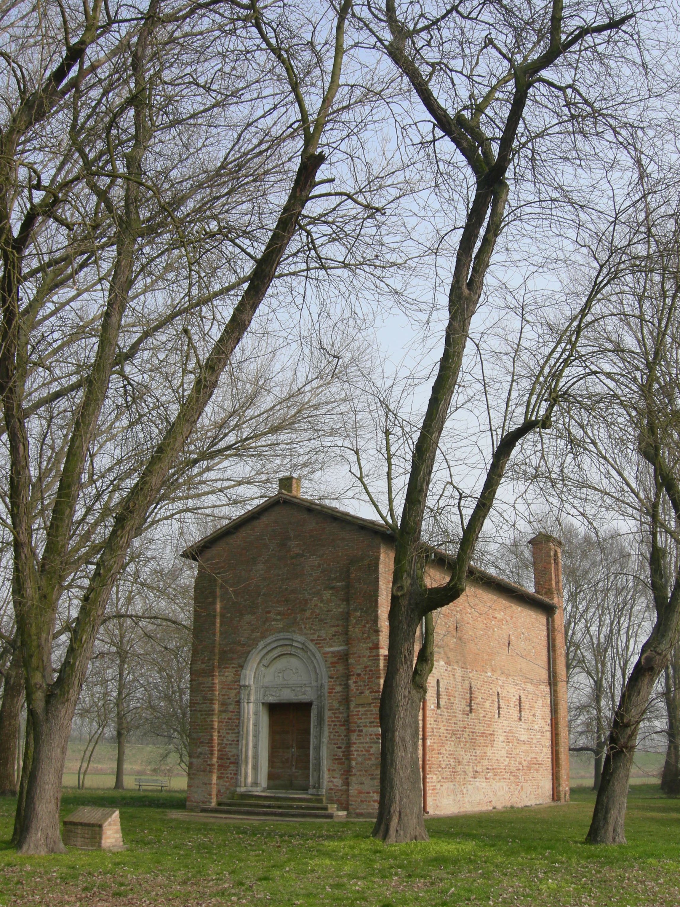 Pieve of saint George, Argenta, Italy